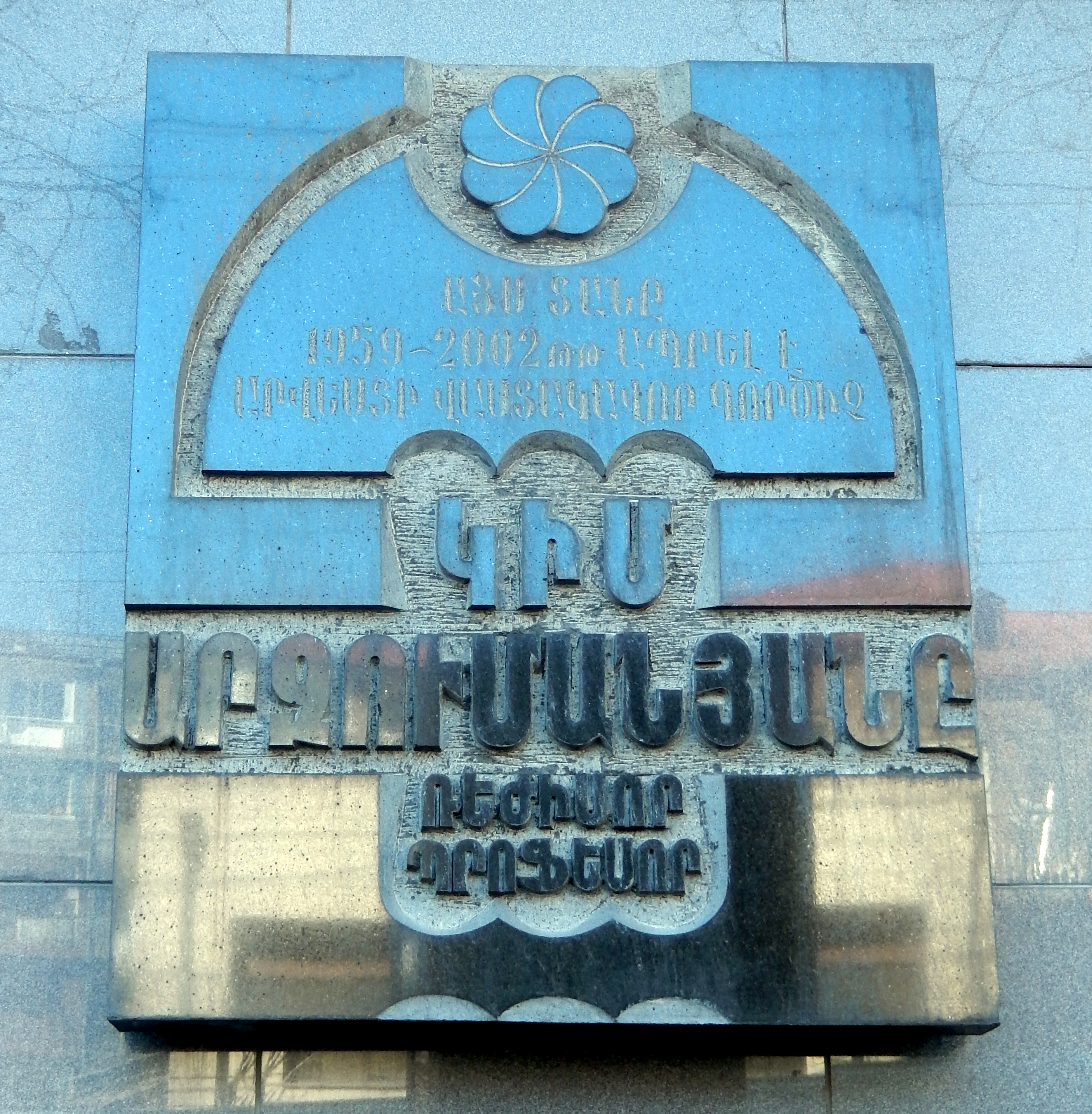 Kim Arzoumanyan's plaque in Yerevan